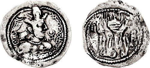 Alchon Huns. Anonymous. Circa 400-440 CE Imitating Sasanian king Shahpur II